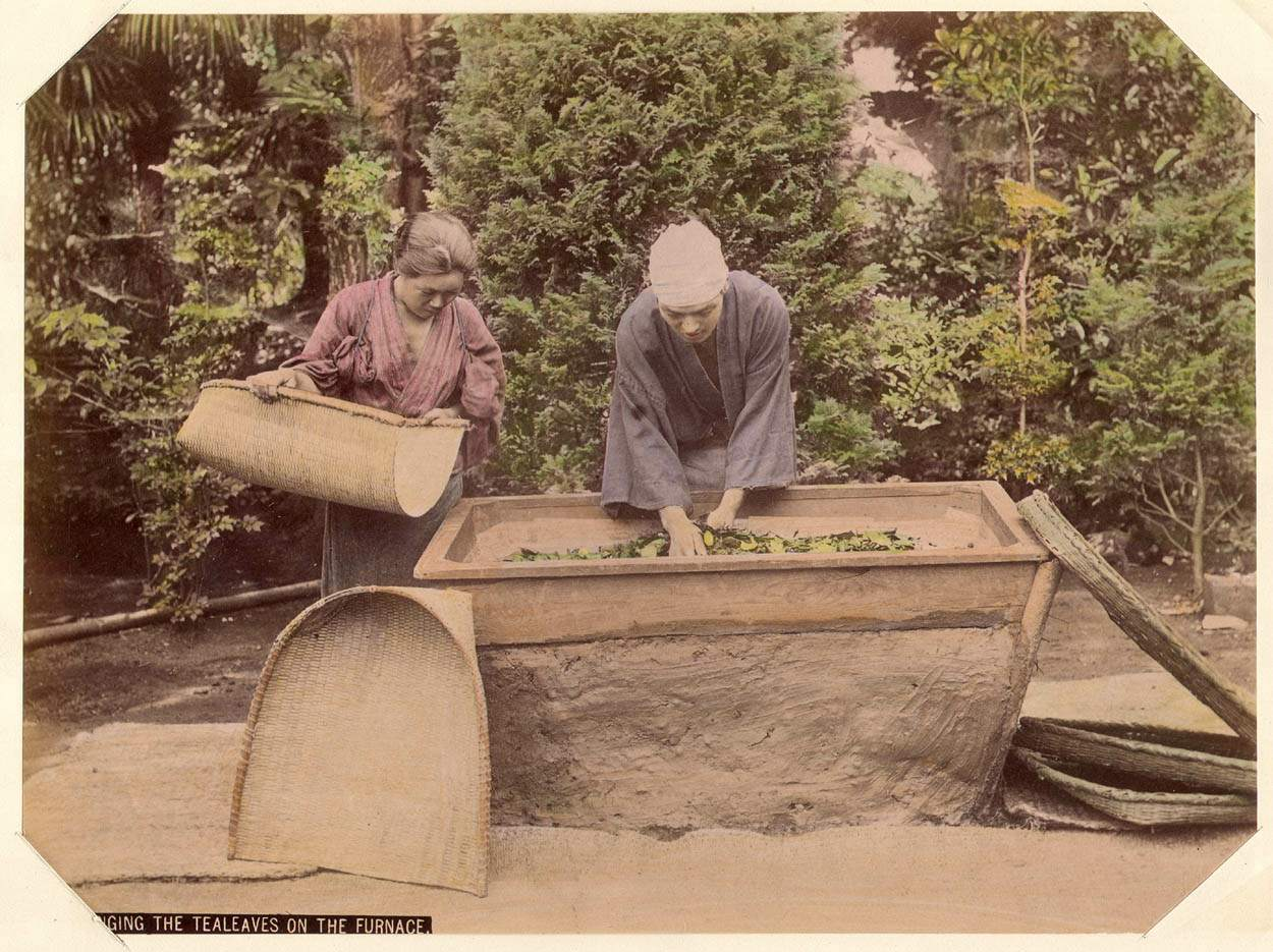 albumen photo